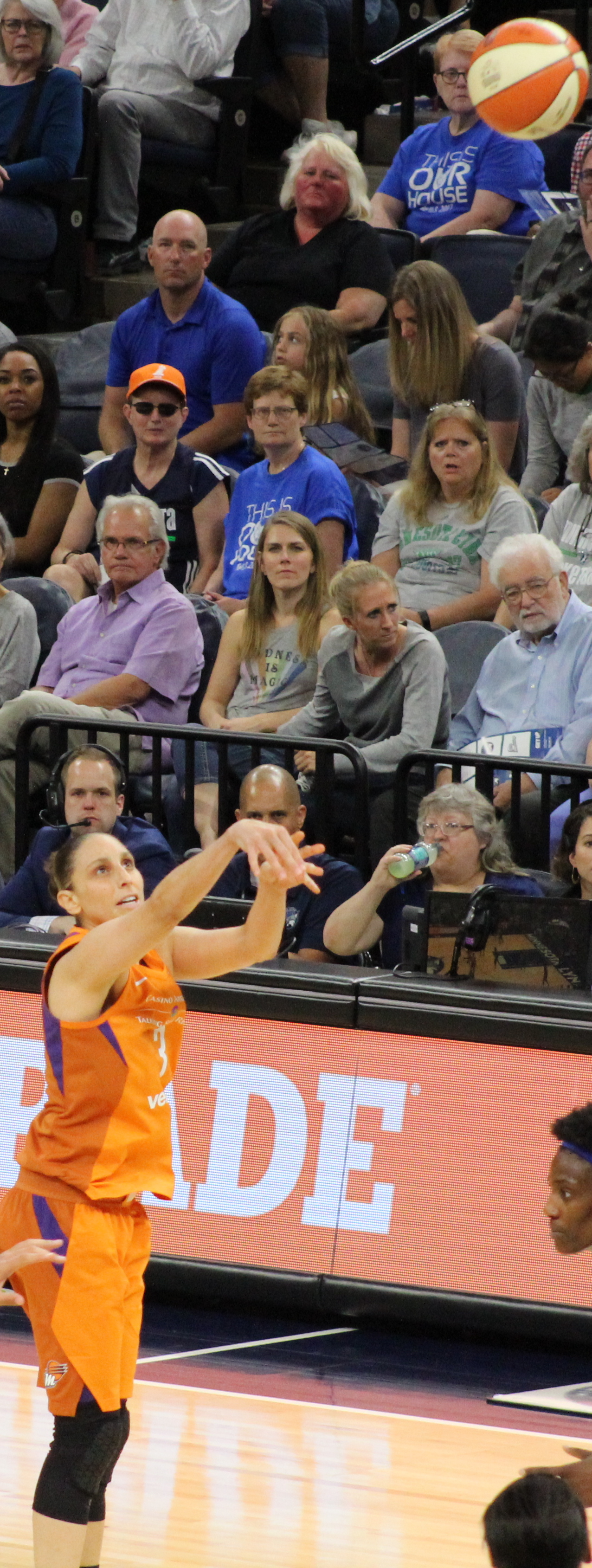 Diana Taurasi of the Phoenix Mercury shooting in 2018